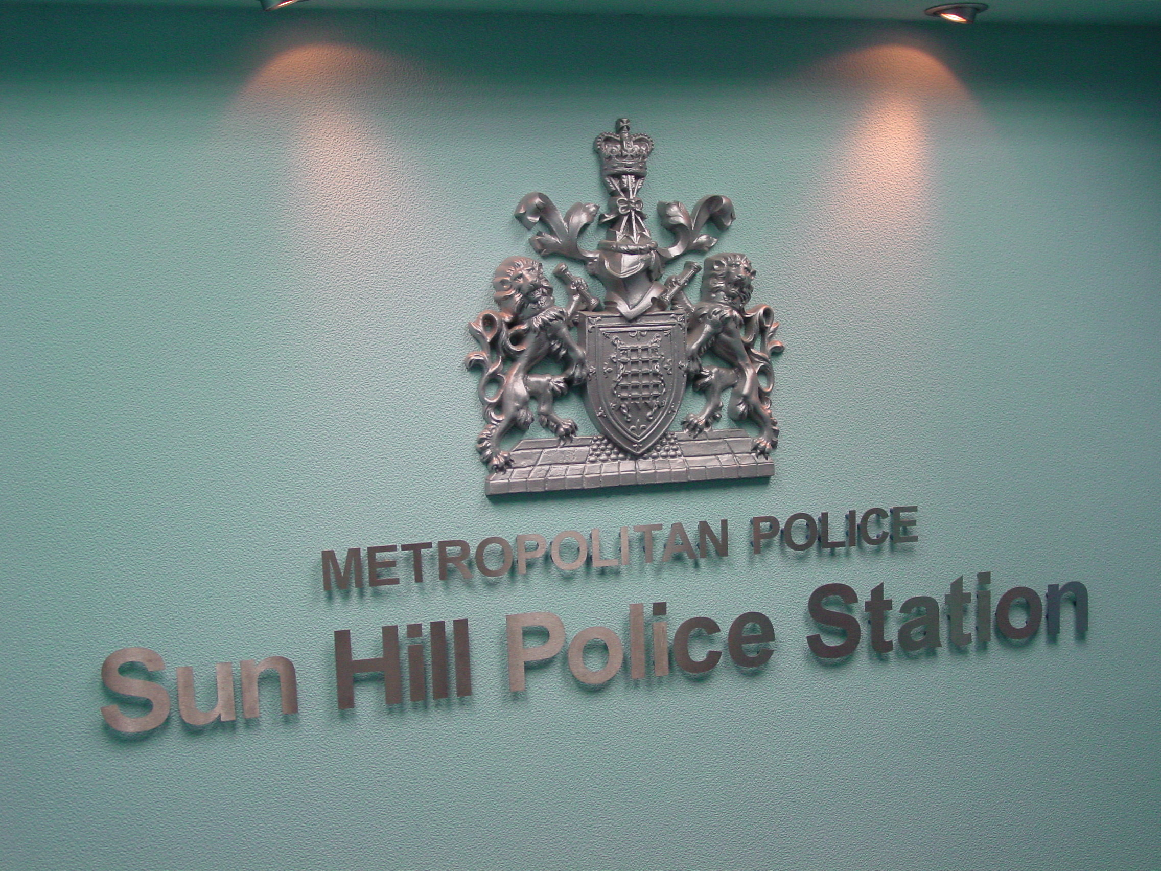 Metropolitan Police crest and station name on the set of the real Sun Hill Police Station from British police drama The Bill.